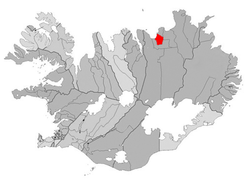 Based on Municipalities of Iceland.png.